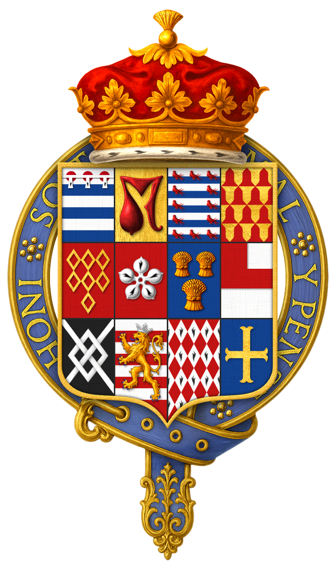 Coat of arms of Sir Henry Grey, 1st Duke of Suffolk, KG. Quarterly of 12: 1:Grey; 2:Hastings; 3:Valence; 4:Ferrers of Groby; 5:De Quincy (heiress of Ferrers of Groby); 8:Woodville